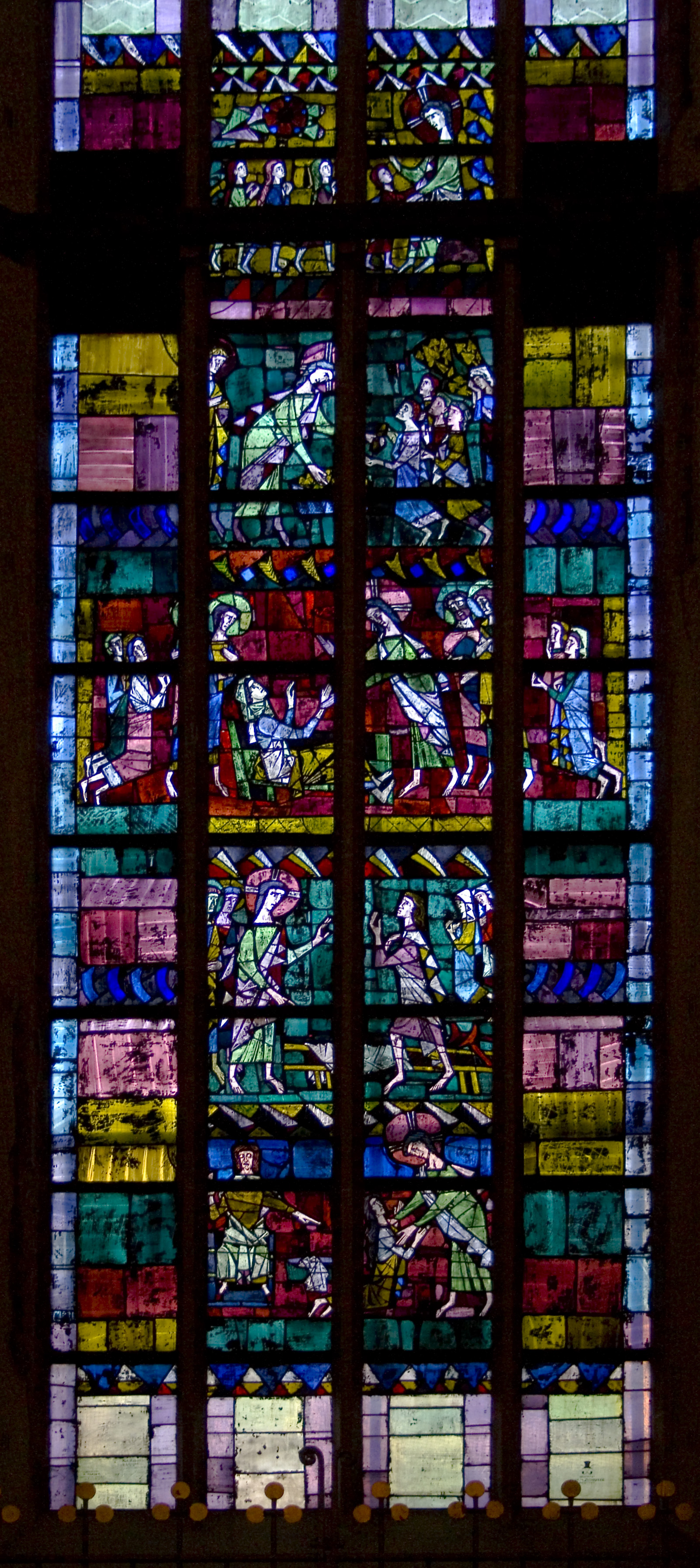 Stained glass in the Frauenkirche, Munich, Germany